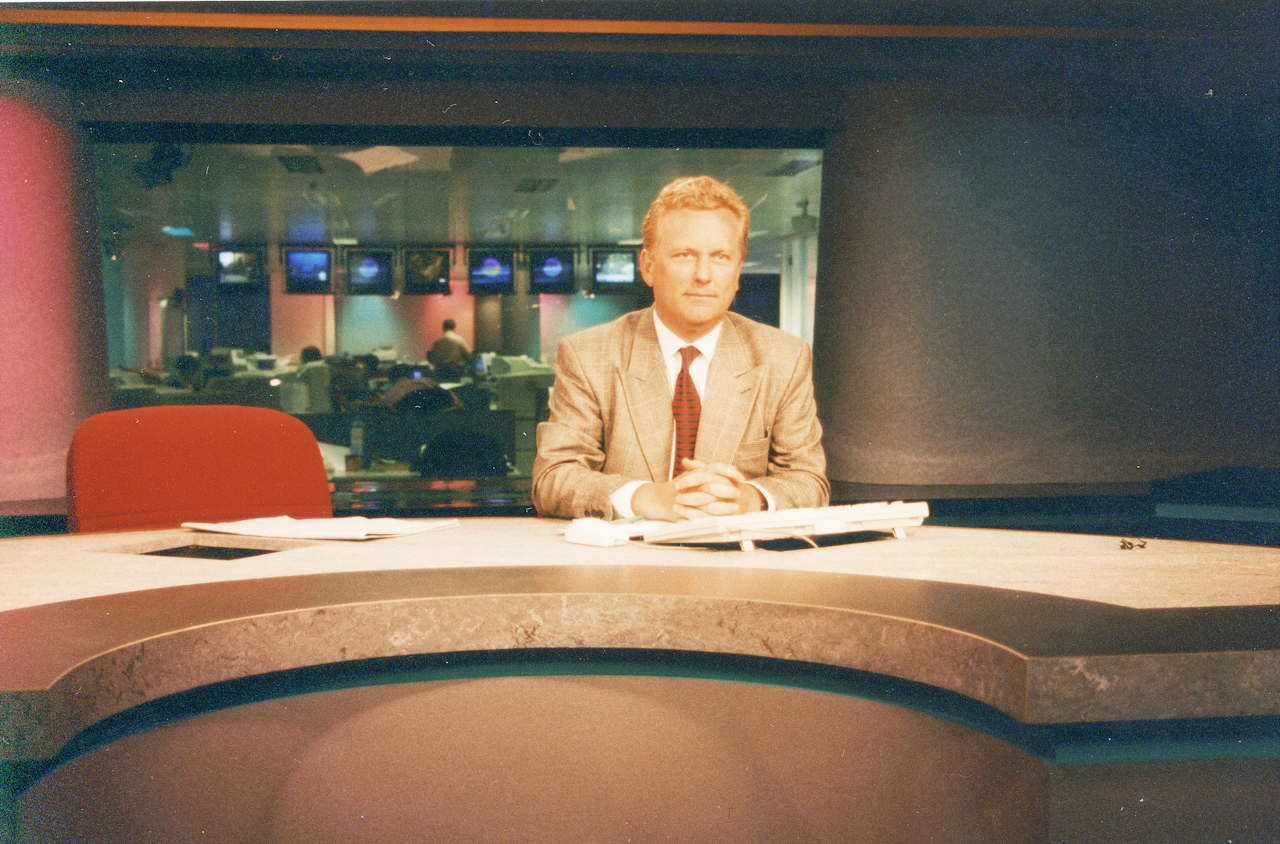 The news presenter Ed Mitchell preparing to talk live on European Business News TV for noon edition.